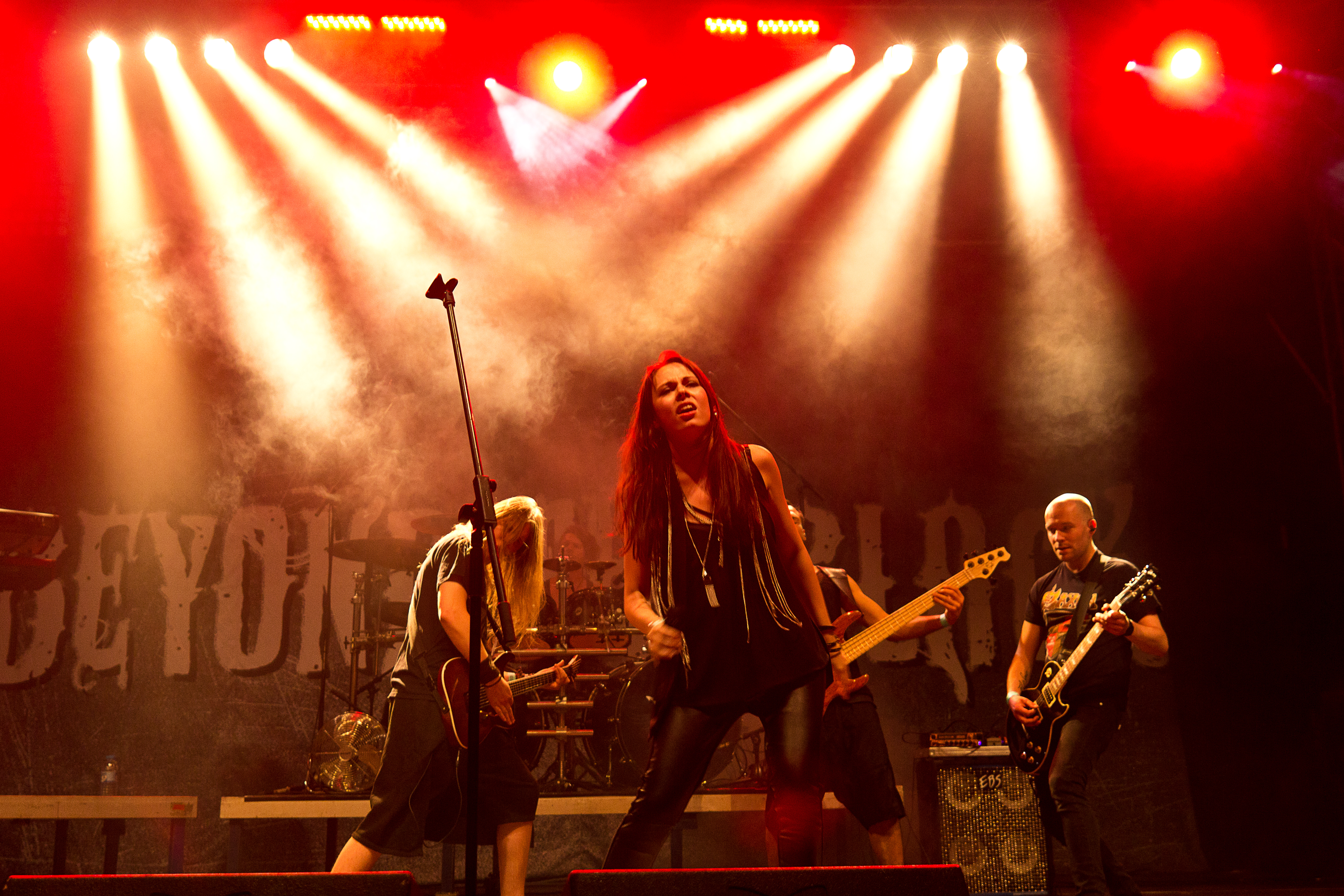 The German symphonic metal band Beyond the Black at the Wave-Gotik-Treffen 2015 in Leipzig/Germany.